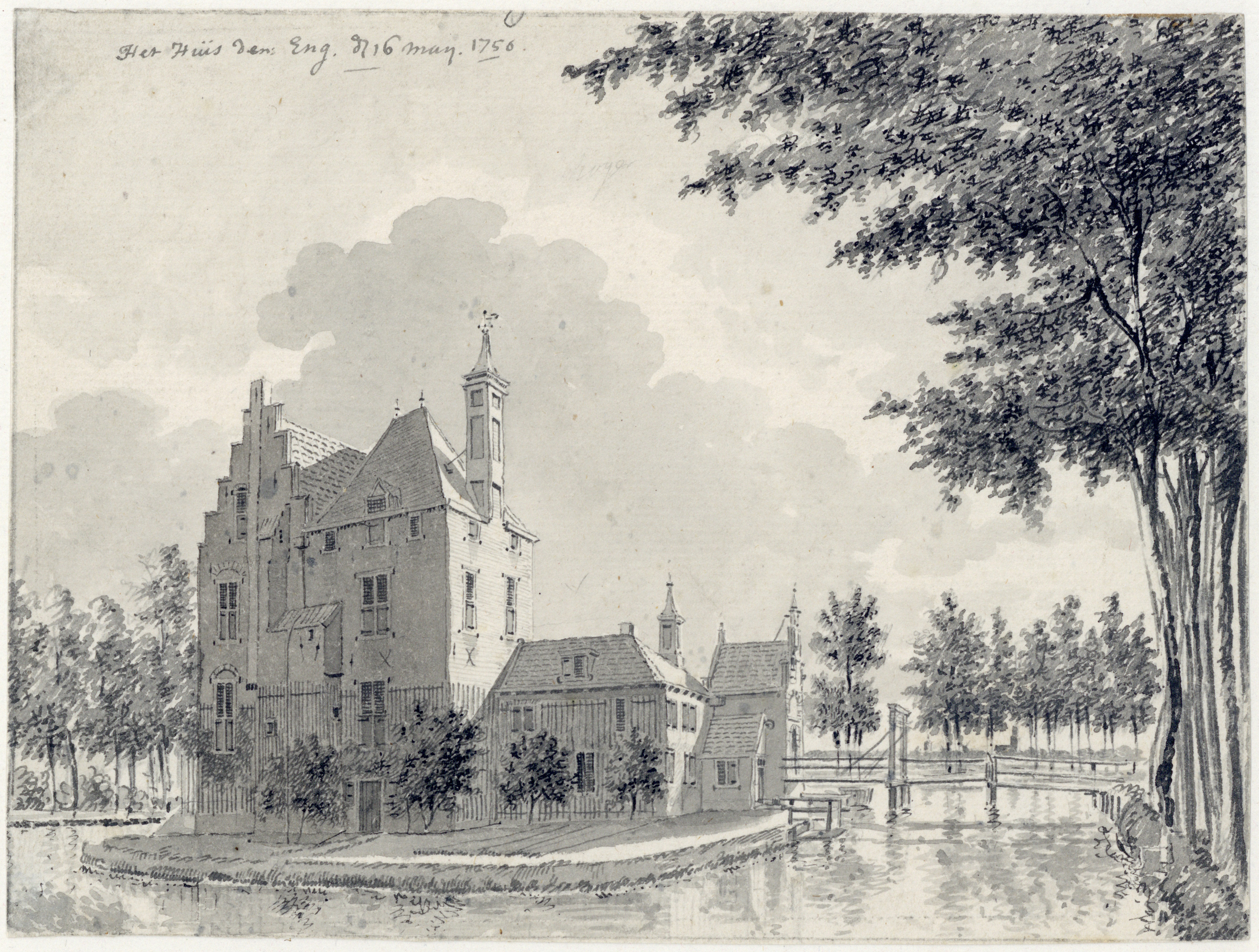 "Het Huijs den Eng. Den 16 Maij. 1756". View of the former castle Den Engh near Vleuten, Utrecht, from the west. At the right the bridge leading to the outer baily. Pen and pencil technique (watercolor painting). Het Utrechts Archief catalogue number 201242. Part of the Atlas Coenen van 's Gravesloot. Since January 1, 2001 Vleuten-De Meern is a part of the municipality of Utrecht.